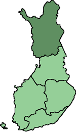 Map of Finland with the Province of Lapland highlighted